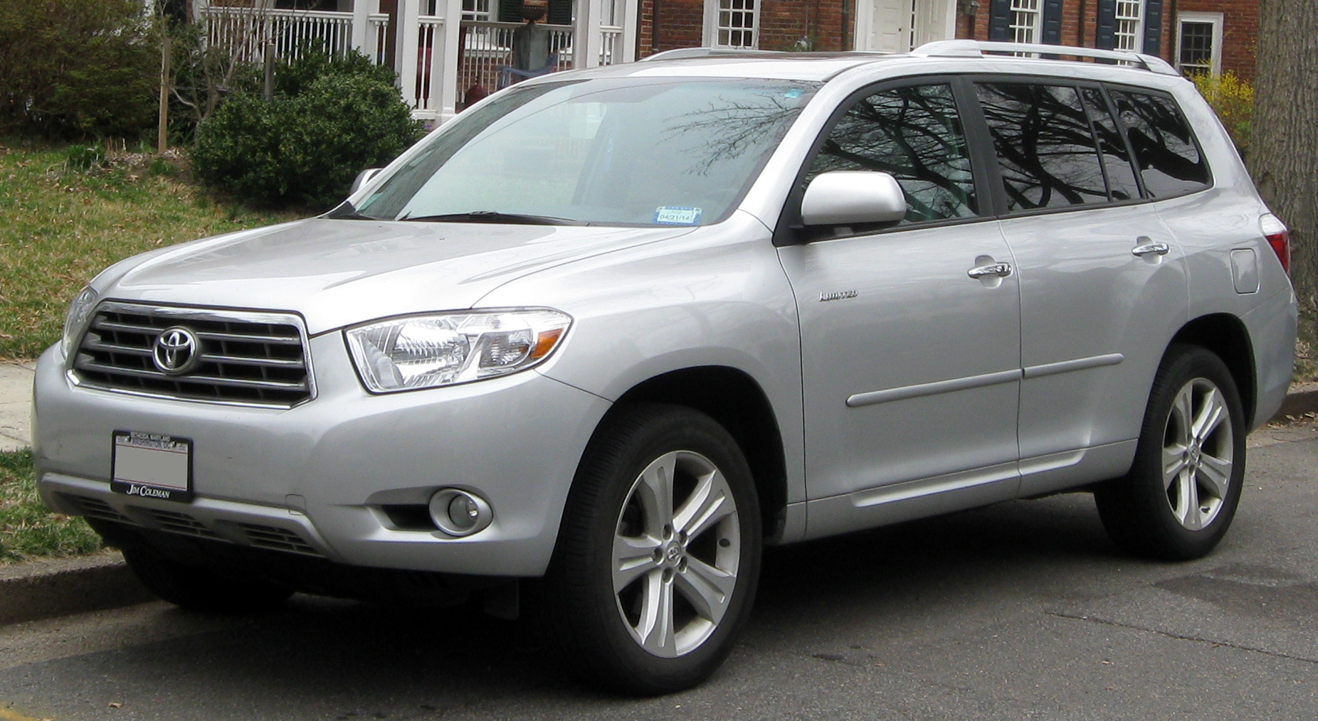 2008-2010 Toyota Highlander photographed in Washington, D.C., USA.